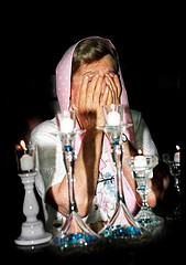 My mother lighting Shabbat candles in Maale Adumim.